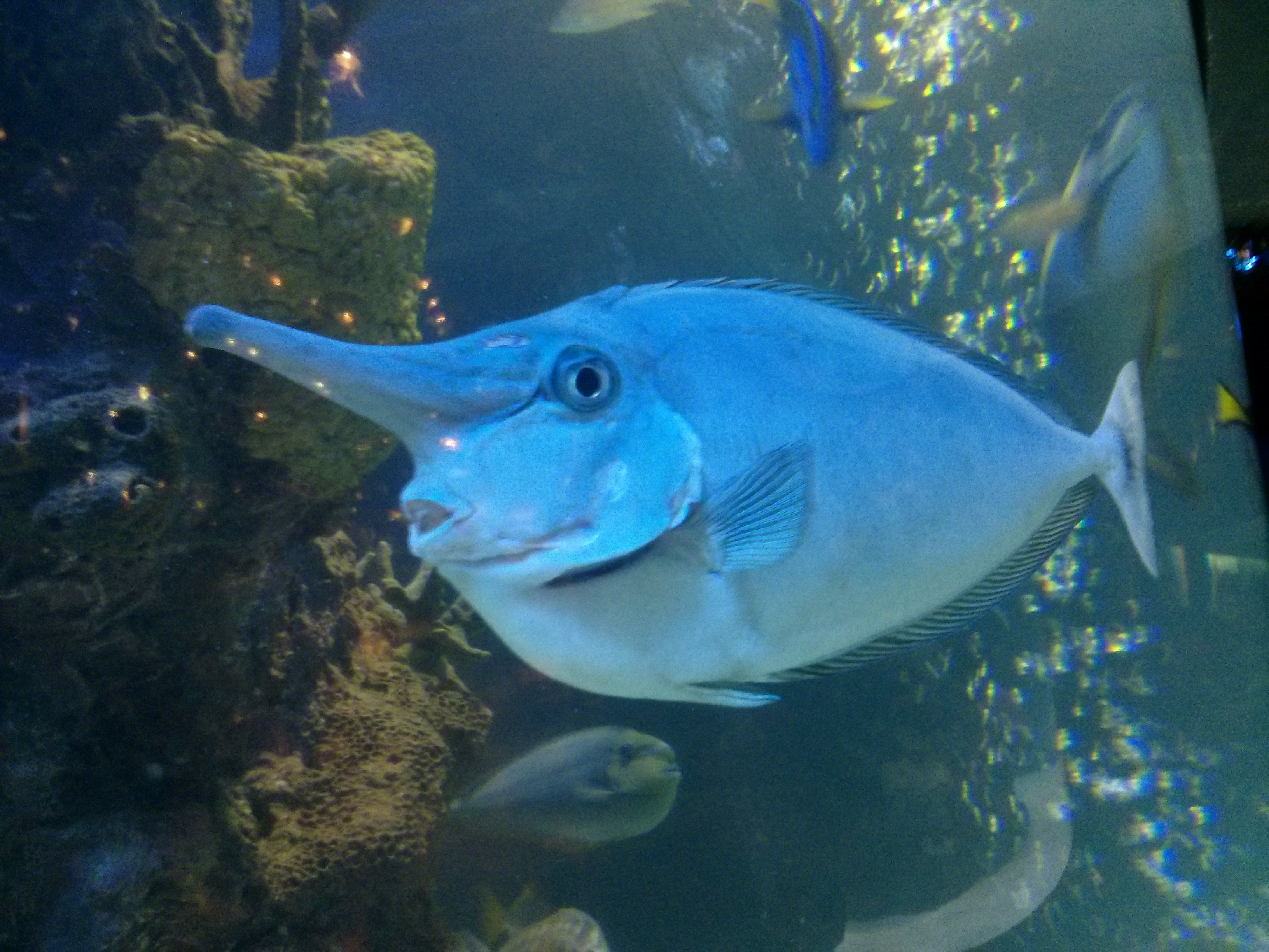 Spotted Unicornfish